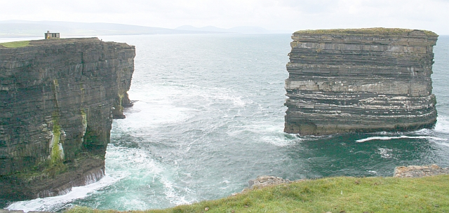 Coast Guard Watch House and Dun Briste The coastguard ’watch-house’ on Downpatrick Head is of W.W.2 vintage. The ogre, Geodruisge, perished when God separated his land from that of Saint Patrick resulting in the sea stack called Dun Briste. So much for legend - it is recorded that the separation took place in 1393. The remains of a medieval house, cultivation ridges, walls, and a broken quern stone were found on this island.